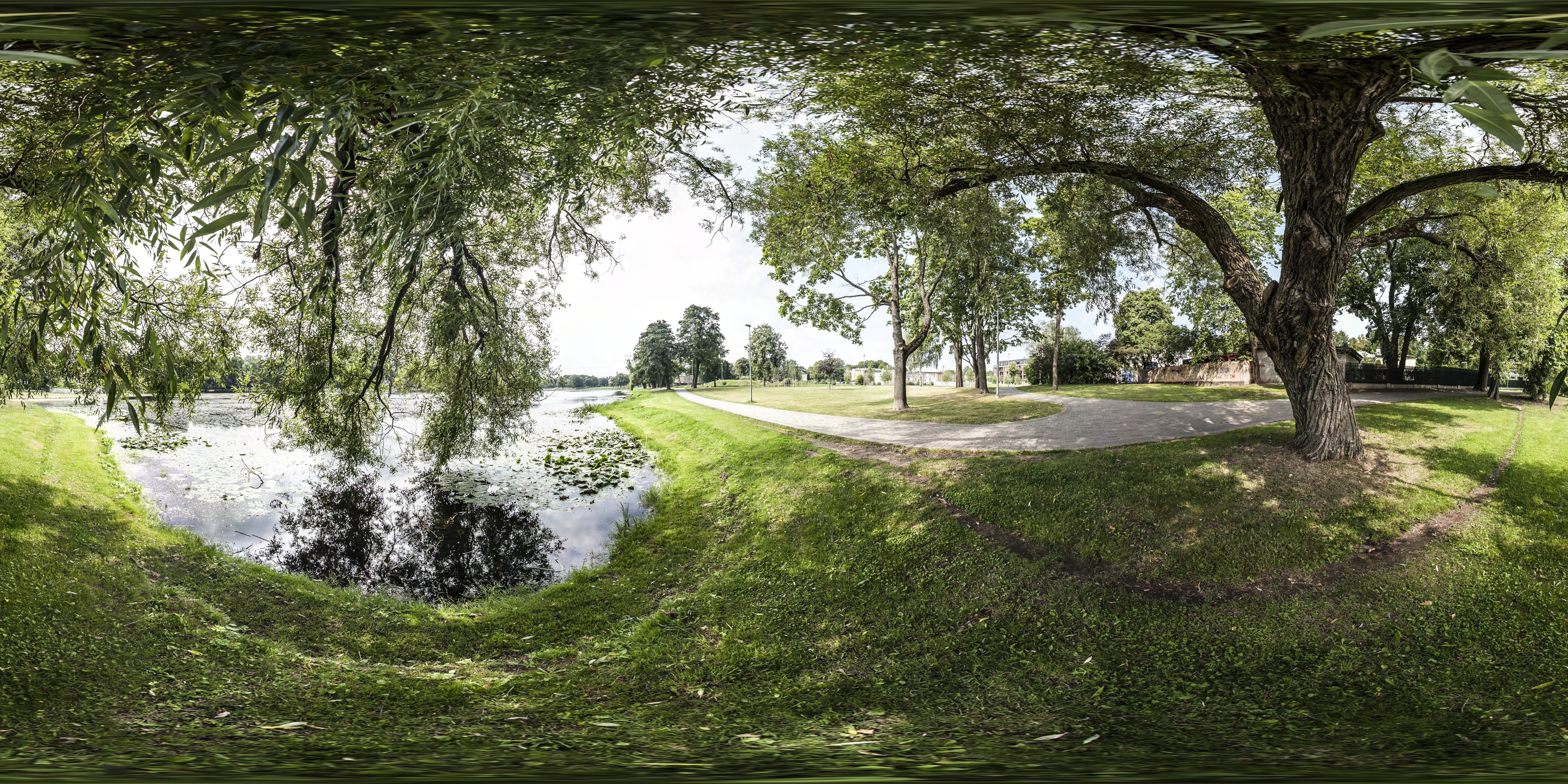 360° View in 360° panoramic viewer